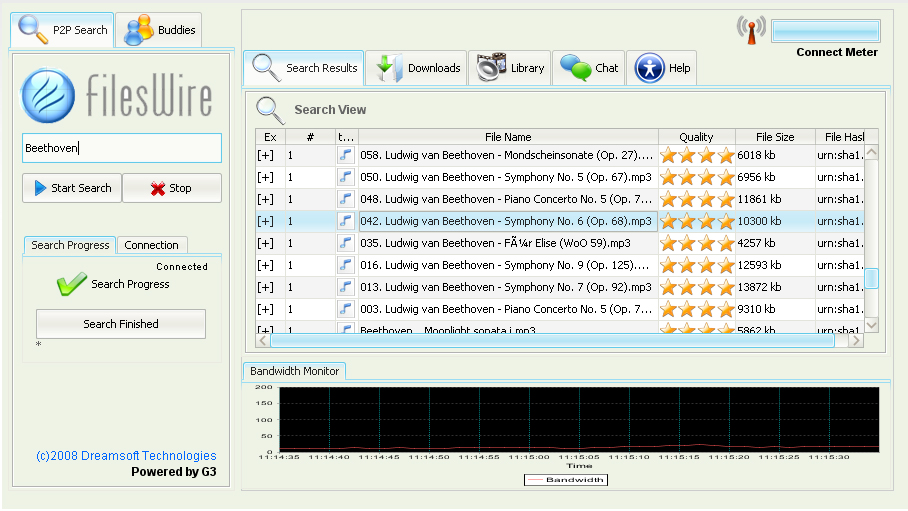 FilesWire Interface Screenshot